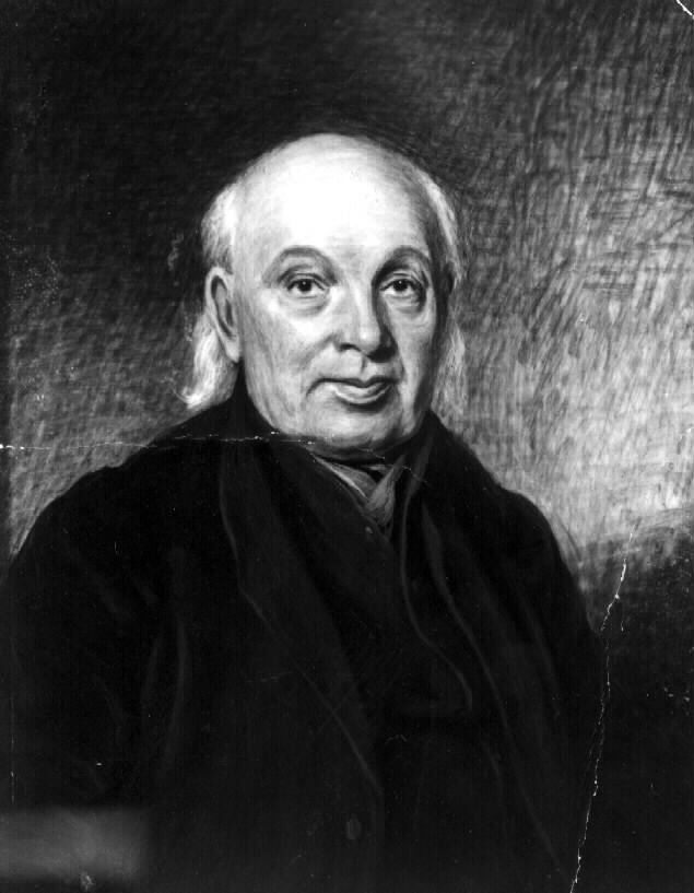 James Finlayson (1771-1852), Scottish industrialist, founder of the Finlayson cotton mills in Tampere, Finland.